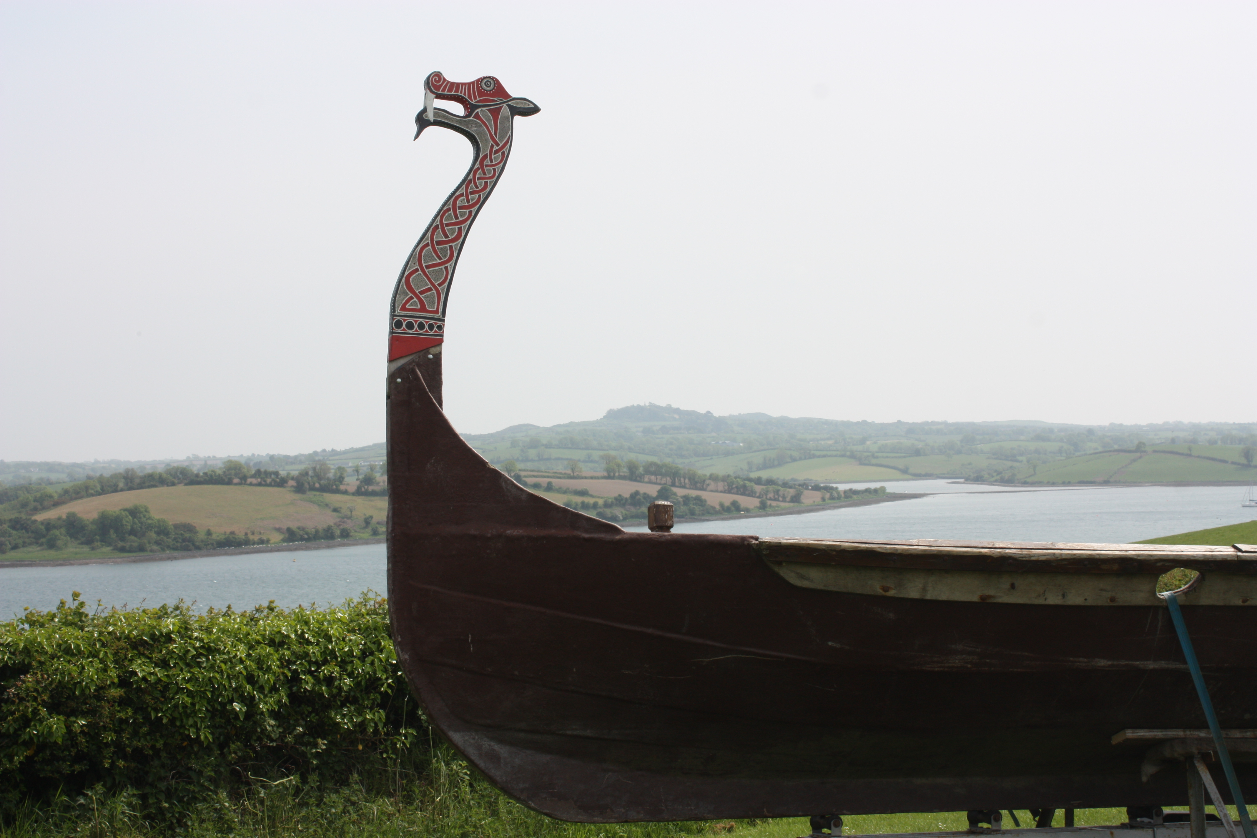 Viking boat (prow), (overlooking Strangford Lough), Magnus Barelegs Viking Festival, Delamont Country Park, Killyleagh, County Down, Northern Ireland, June 2012